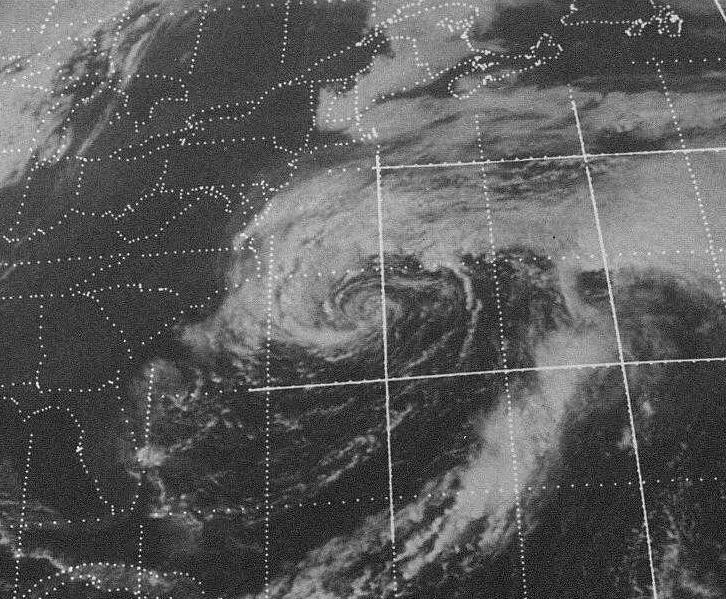 Satellite image of Subtropical Storm Gilda near North Carolina